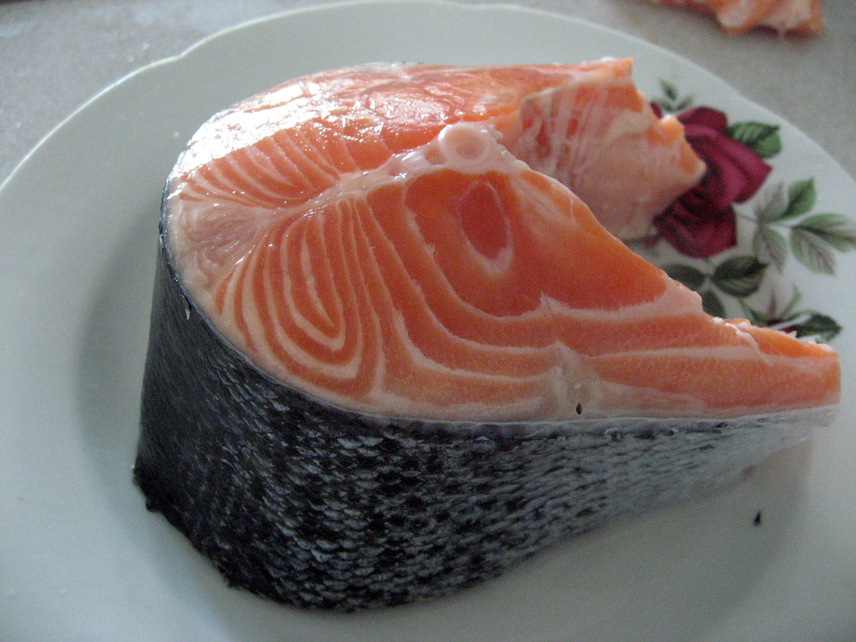 piece of salmon